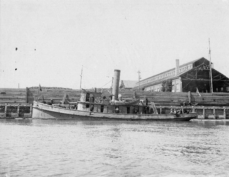 Naval tug USS Active at Mare Isand, 1898